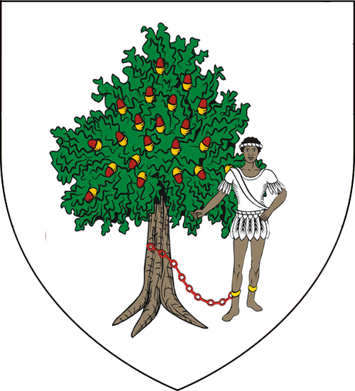 Coat of arms of the Donnellan.